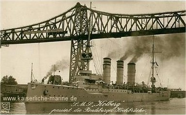 the ship SMS Kohlberg